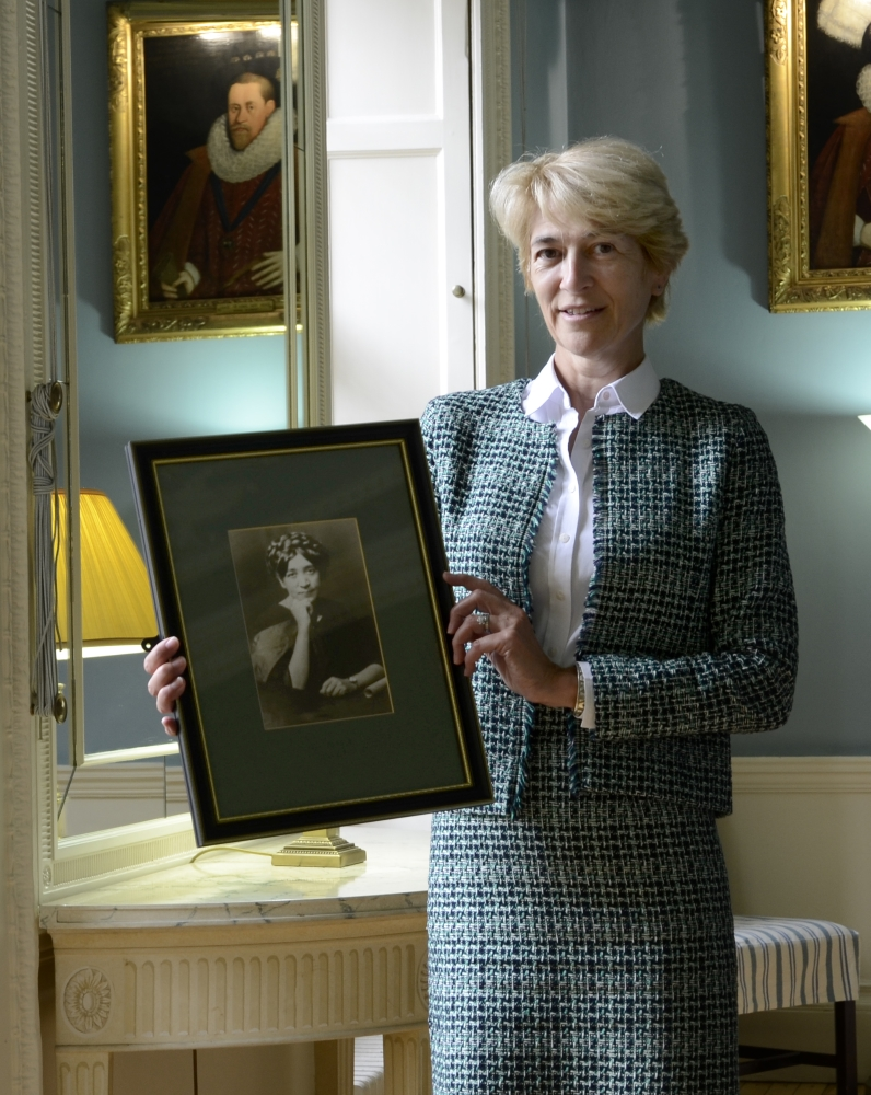 Professor Angela Thomas holding a photograph of Isabella Pringle the first female Fellow of the Royal College of Physicians of Edinburgh.